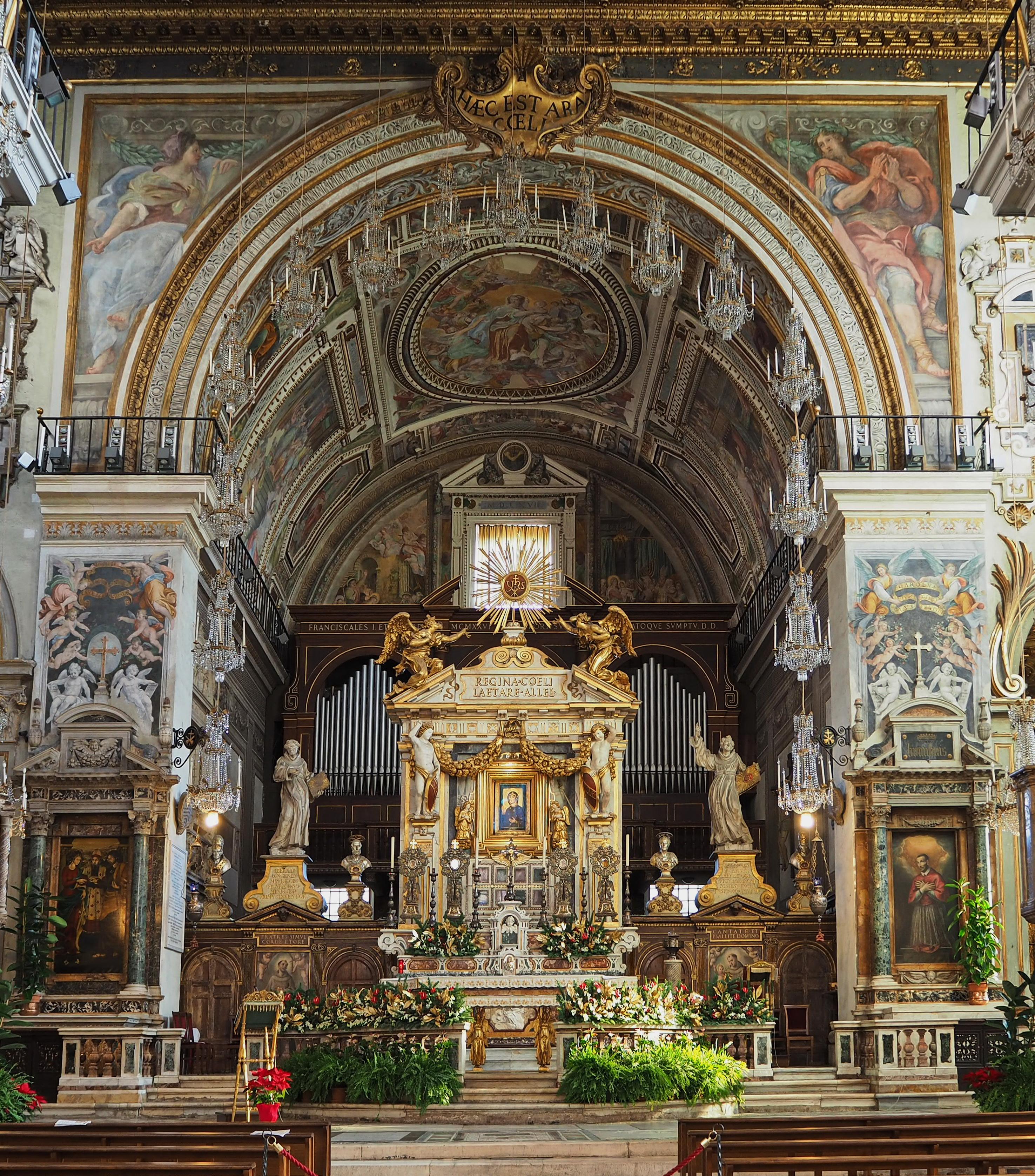 Santa Maria in Aracoeli (Rome); Choir and main altar